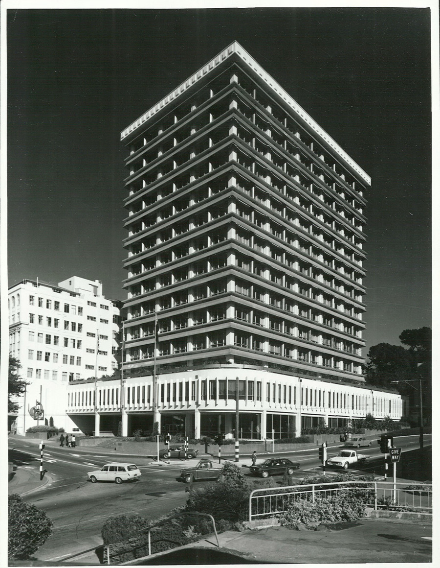 Images from NZ Archives Flickr albums Images uploaded in collaboration between WMUK and the University of Edinburgh